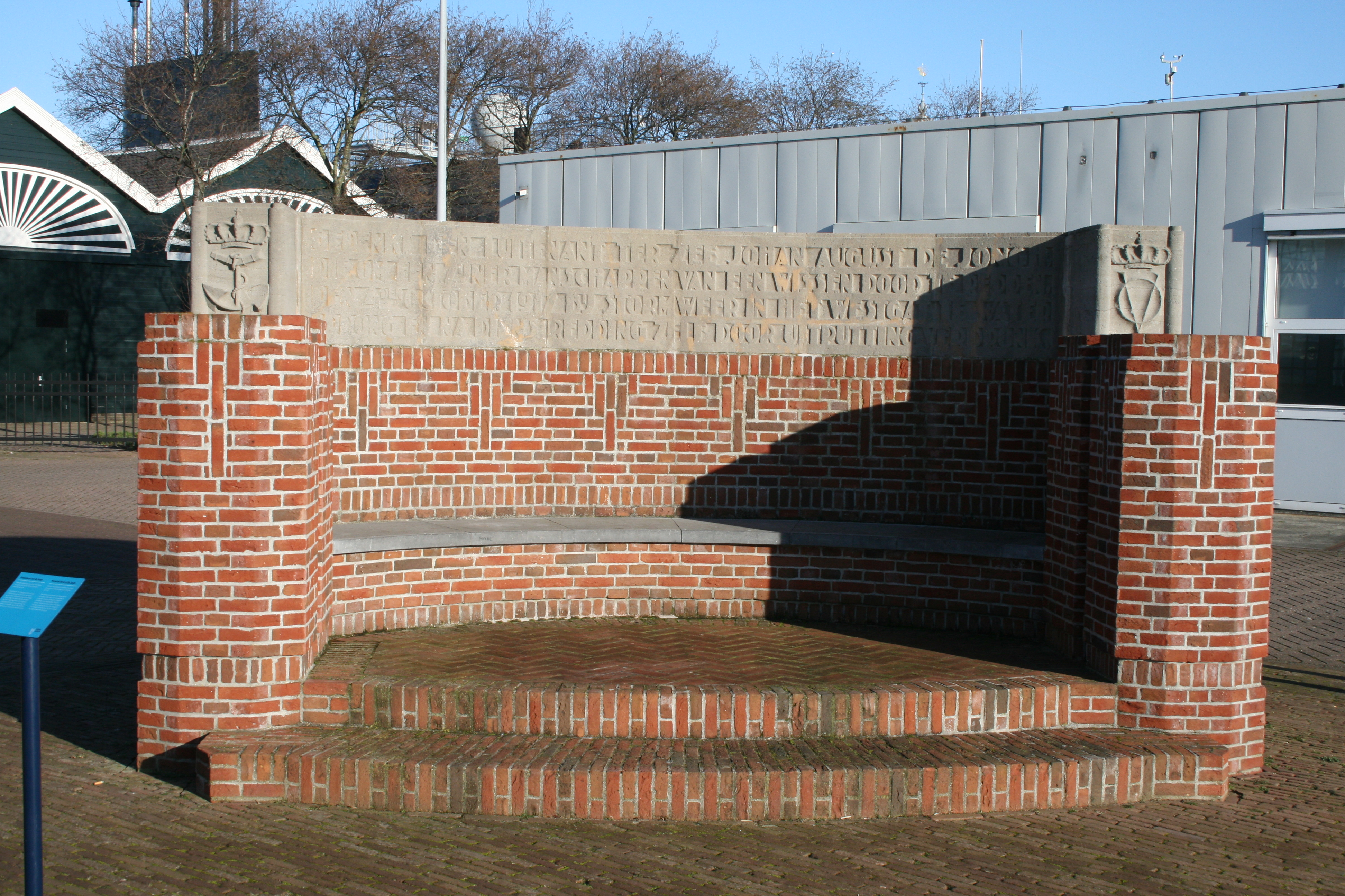 Memorial bench